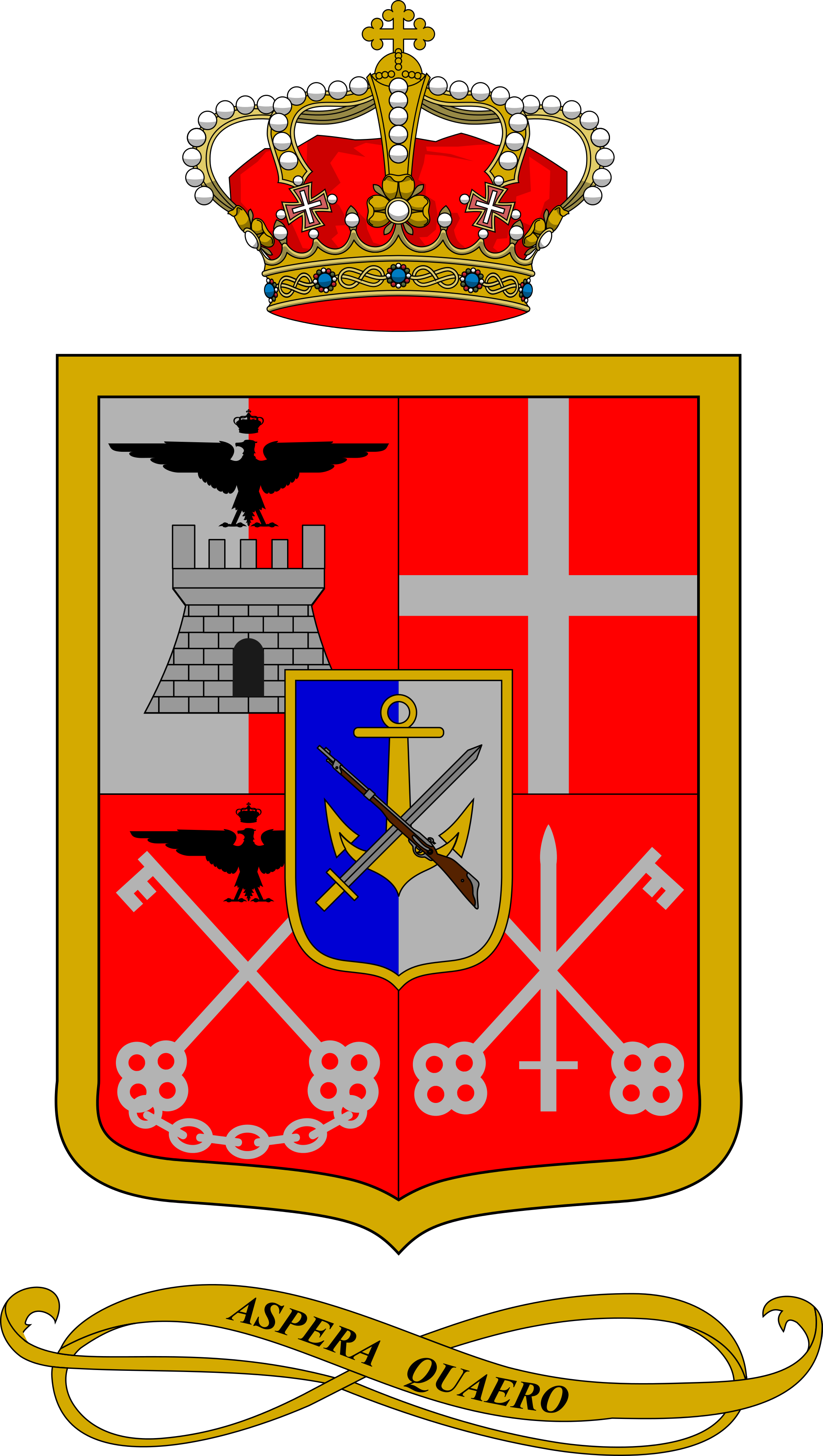 Coat of Arms of the 65th Infantry Regiment "Valtellina", Royal Italian Army, 1939 - - Royal Crown by user Flanker, released to public domain (see File:Crown of Savoy.svg)